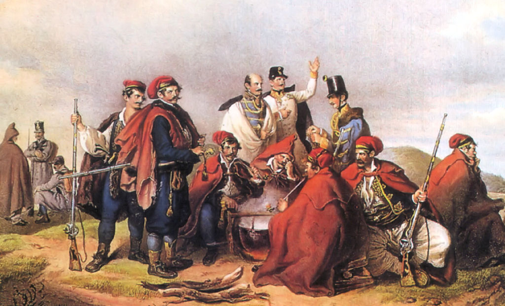 Jellačić Joseph de Buzim and his soldiers before the battle of schwechat